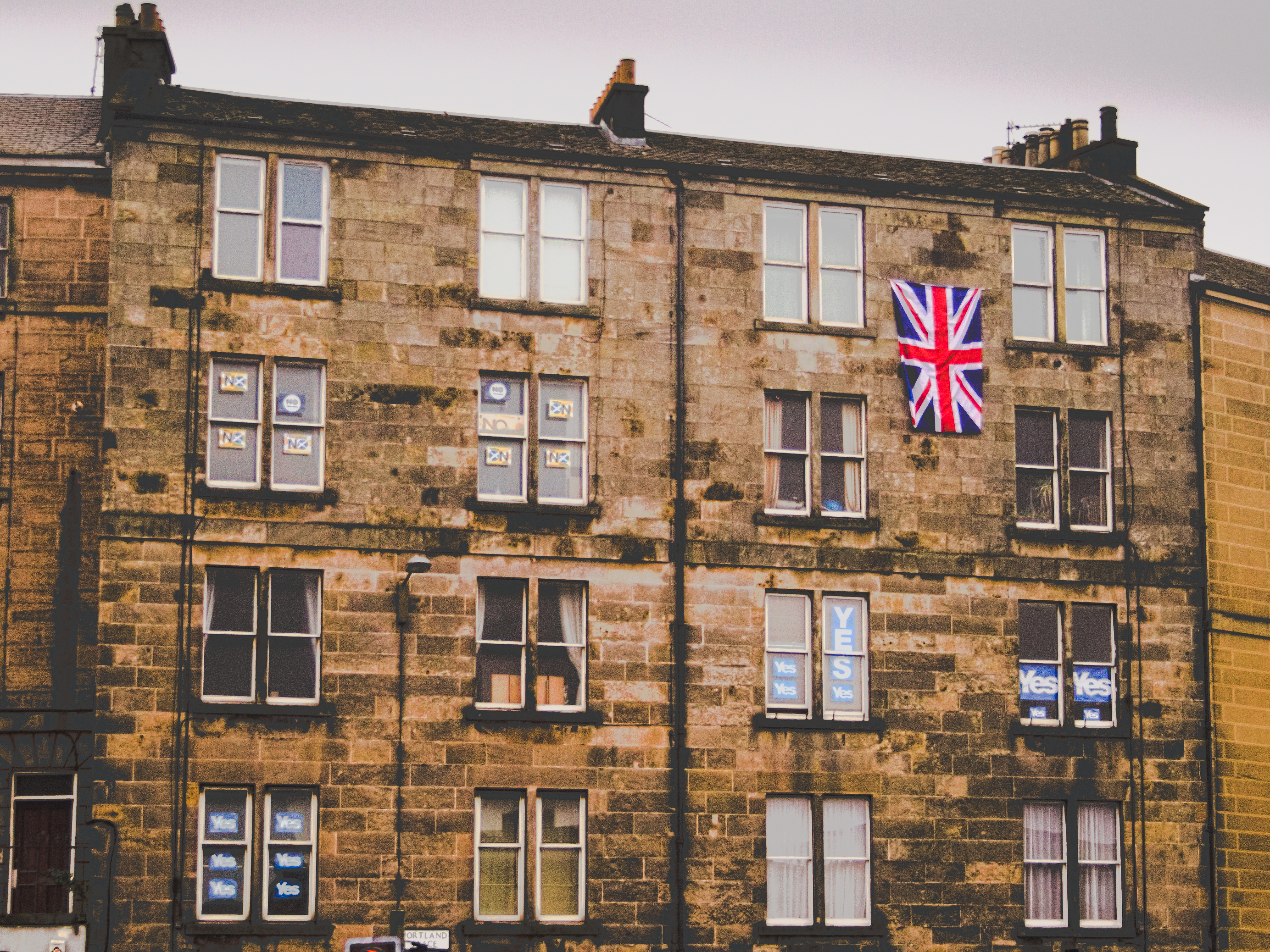 Tenement block in Leith (North Junction Street/Lindsay Road junction), with both YES and NO referendum posters and Union flag.